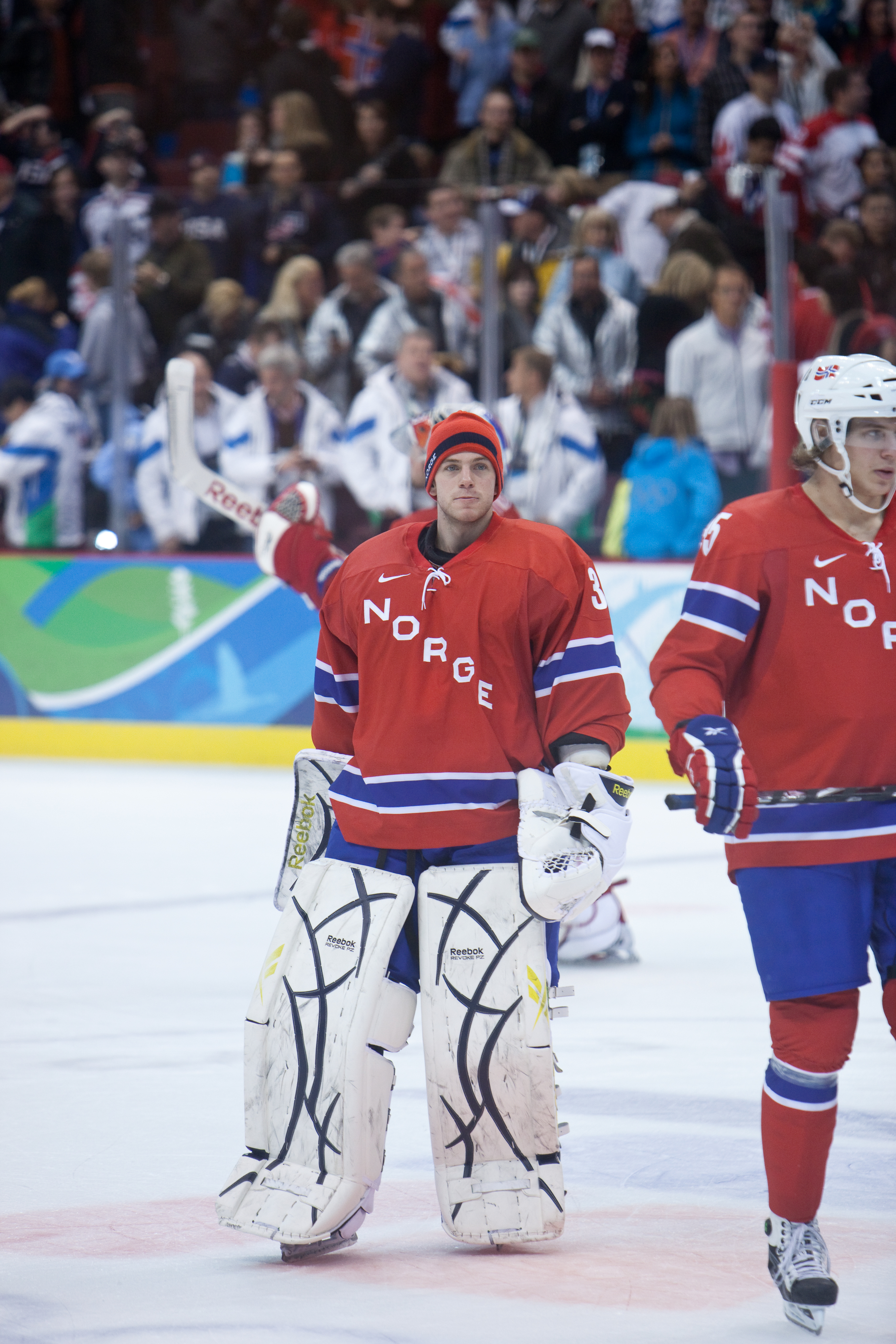 Goaltender Ruben Smith of Norway during the 2010 Winter Olympics